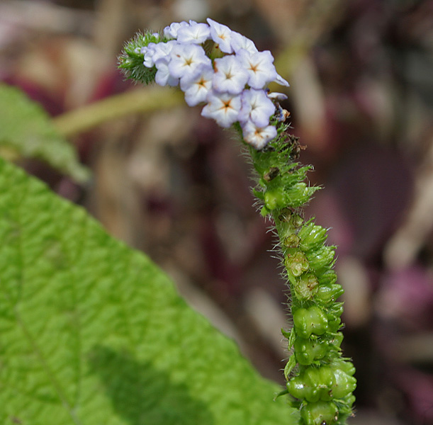 Indian Turnsole or Hatisurh Heliotropium indicum in Hyderabad , India.